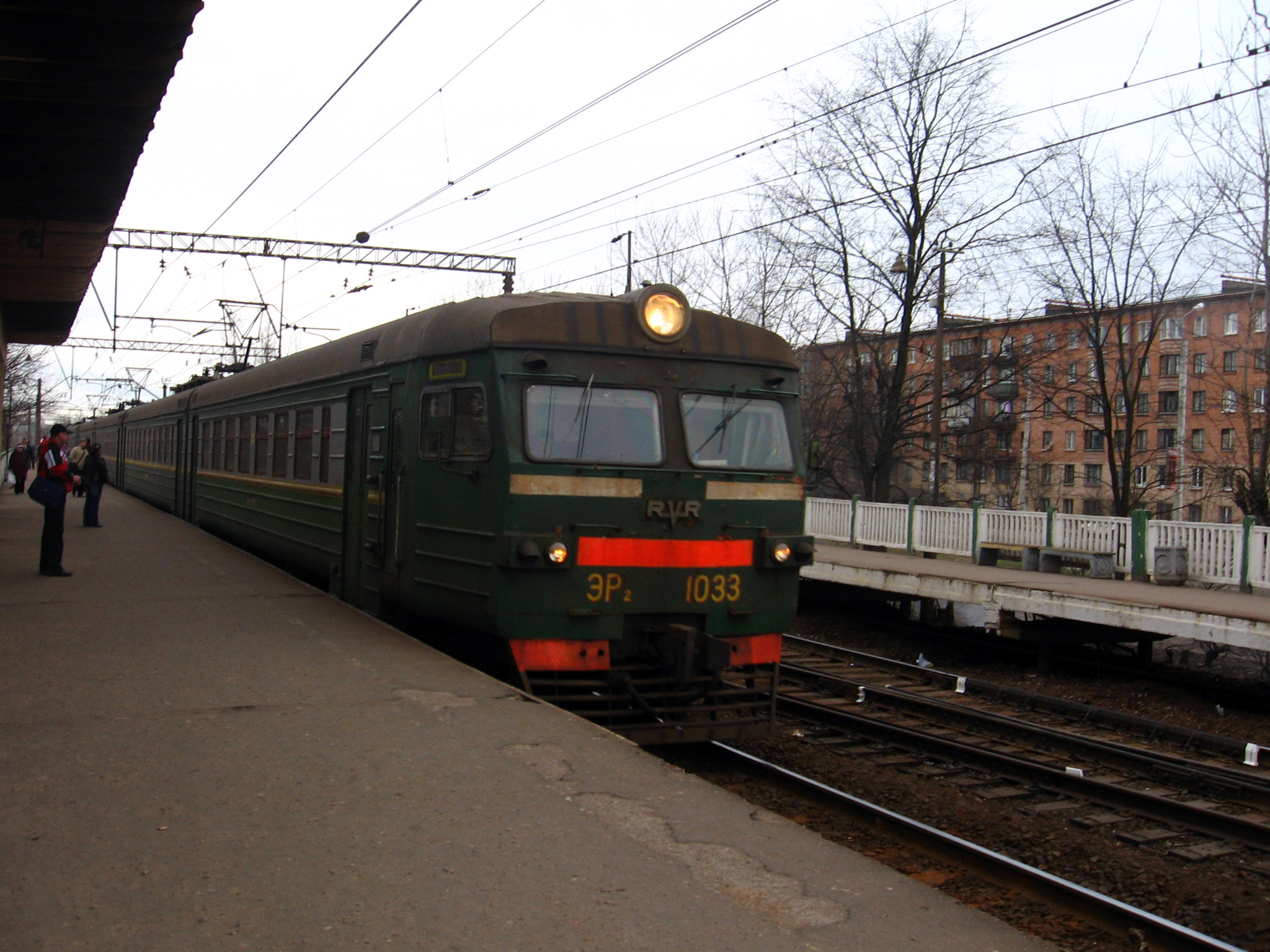 EMU ER2-1033 on Tatianino platform in Gatchina